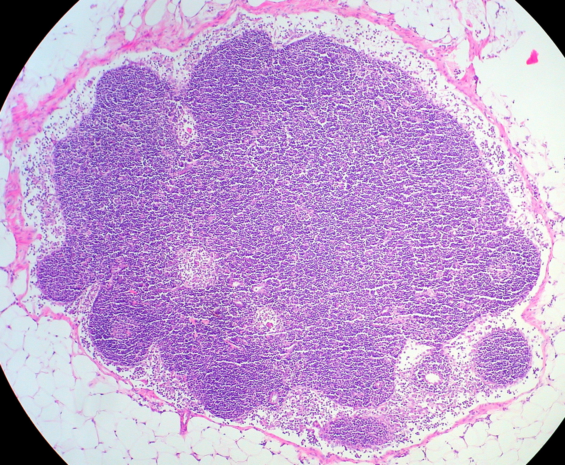 Normal Lymph Node From a colectomy specimen. The subcapsular sinus and capsule are well demonstrated in this example.